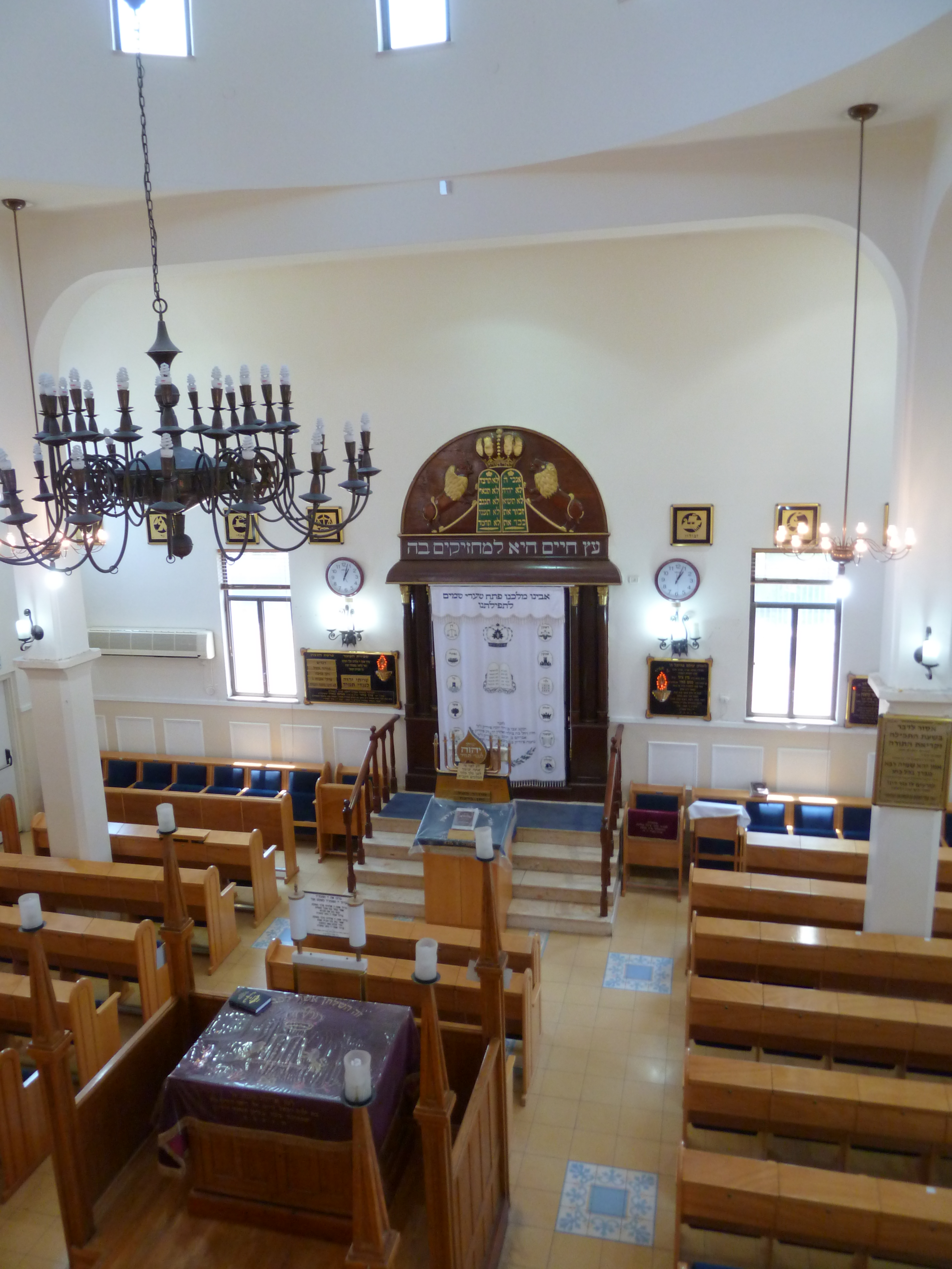 Interiors of Beth Shalom Synagogue, Afula, Israel This image was taken as part of the Elef Millim project trip to the town of Afula in the Jezreel Valley, which was held on Friday, 27th July 2012. To view all images uploaded as part of the Elef Millim Project